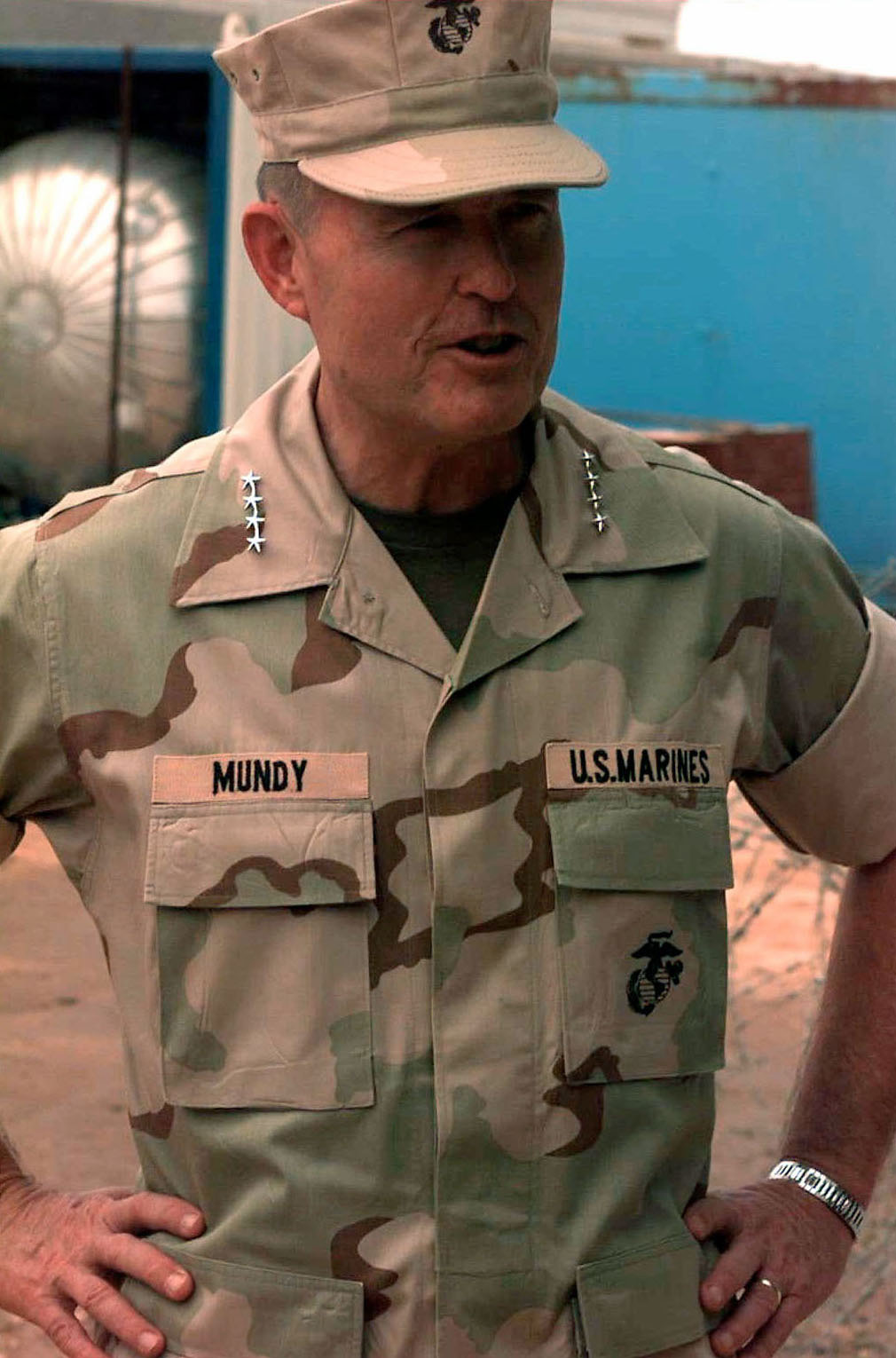 Straight on shot from the waist up of the US Marine Corps Commandant, GEN Carl Mundy. He's visiting Marines in Somalia that are assigned to the mission of Operation Restore Hope.